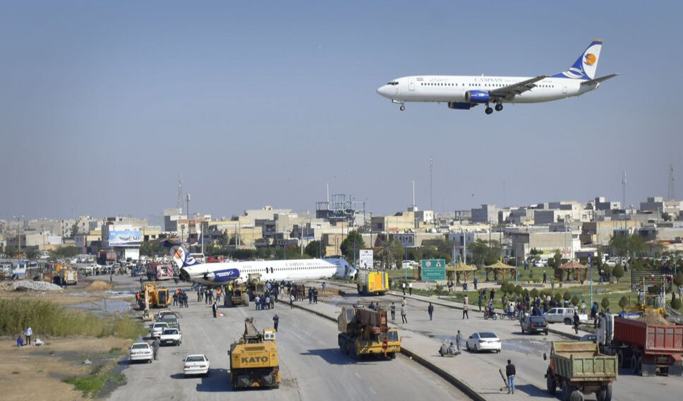 Caspian Airlines Airplane (McDonnell Douglas MD-83) crash at Mahshahr airport